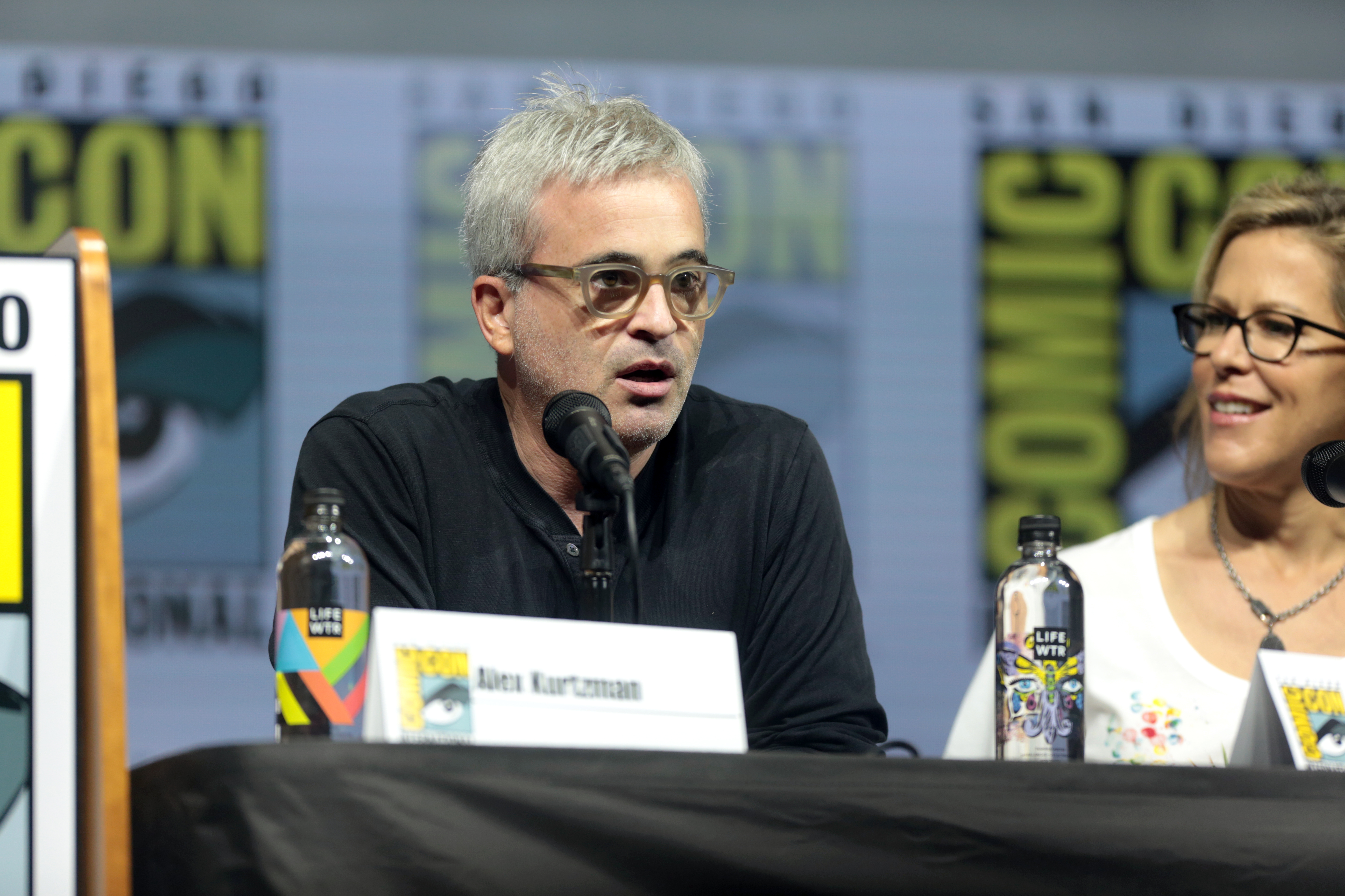 Alex Kurtzman speaking at the 2018 San Diego Comic Con International, for "Star Trek: Discovery", at the San Diego Convention Center in San Diego, California.